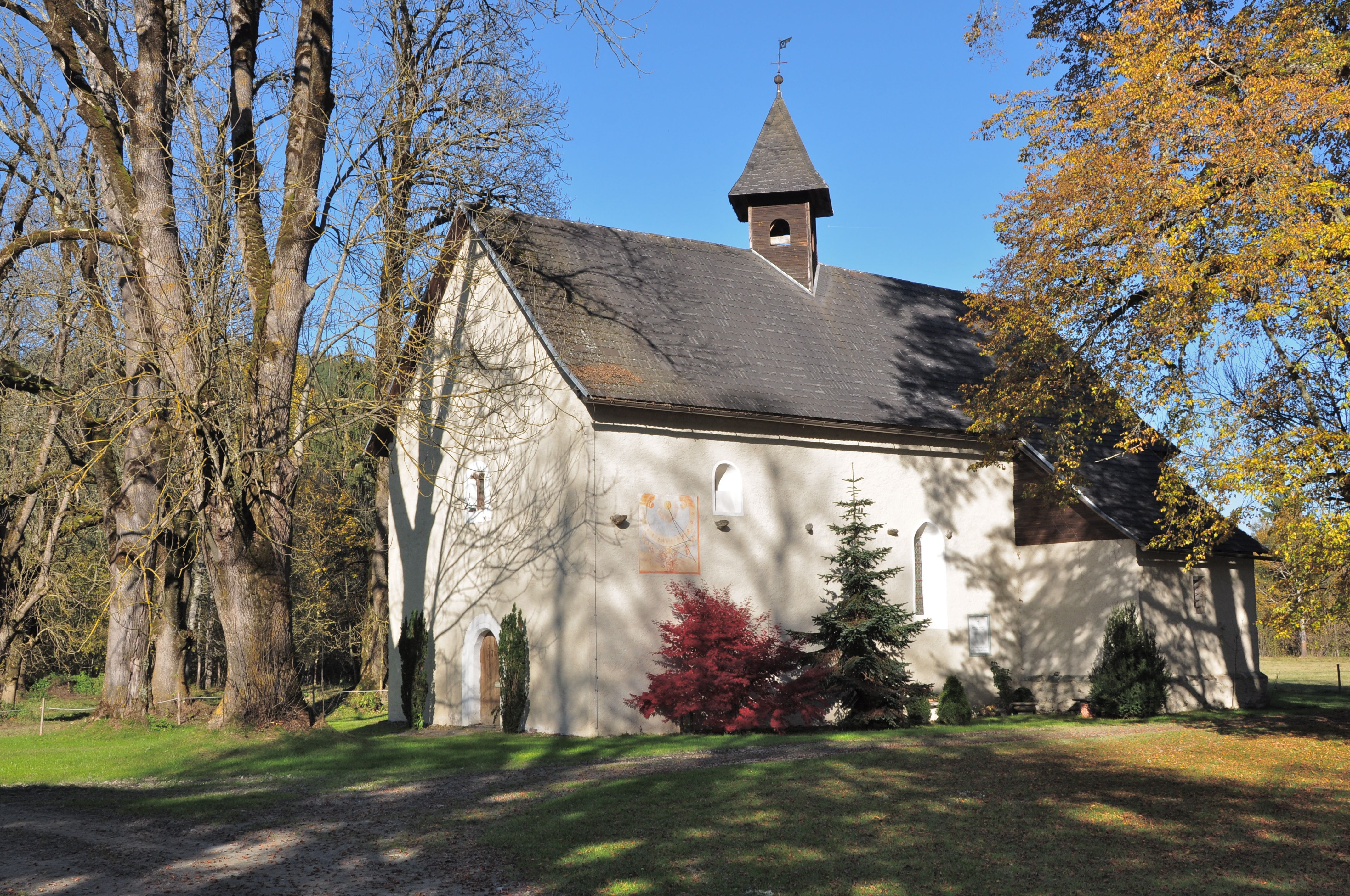 Subsidiary church Saint John the Baptist in Spitzwiesen, municipality Deutsch-Griffen, district Sankt Veit, Carinthia, Austria, EU